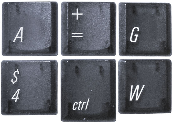 Six keys detached from a PowerBook G4 keyboard. © David Remahl.